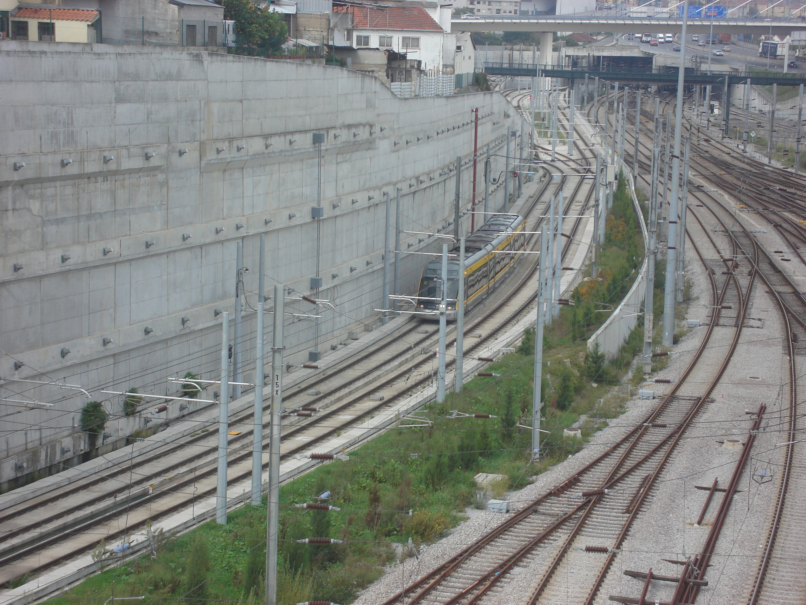 This is the Subway of Porto city